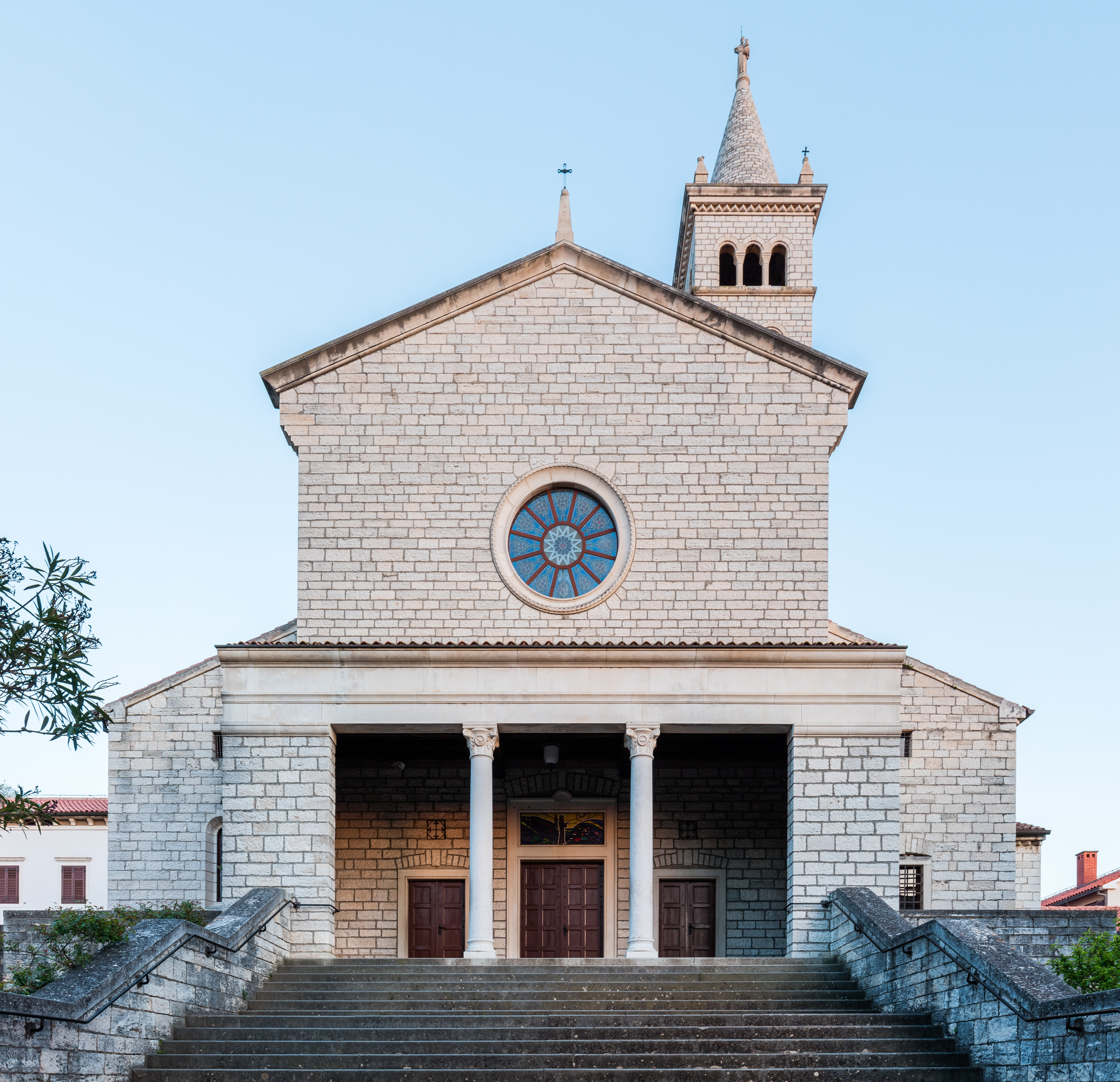 Saint Anthony of Padua Church, Pula, Croatia. This is a a photo of a cultural heritage in Croatia with ID: Z-5638